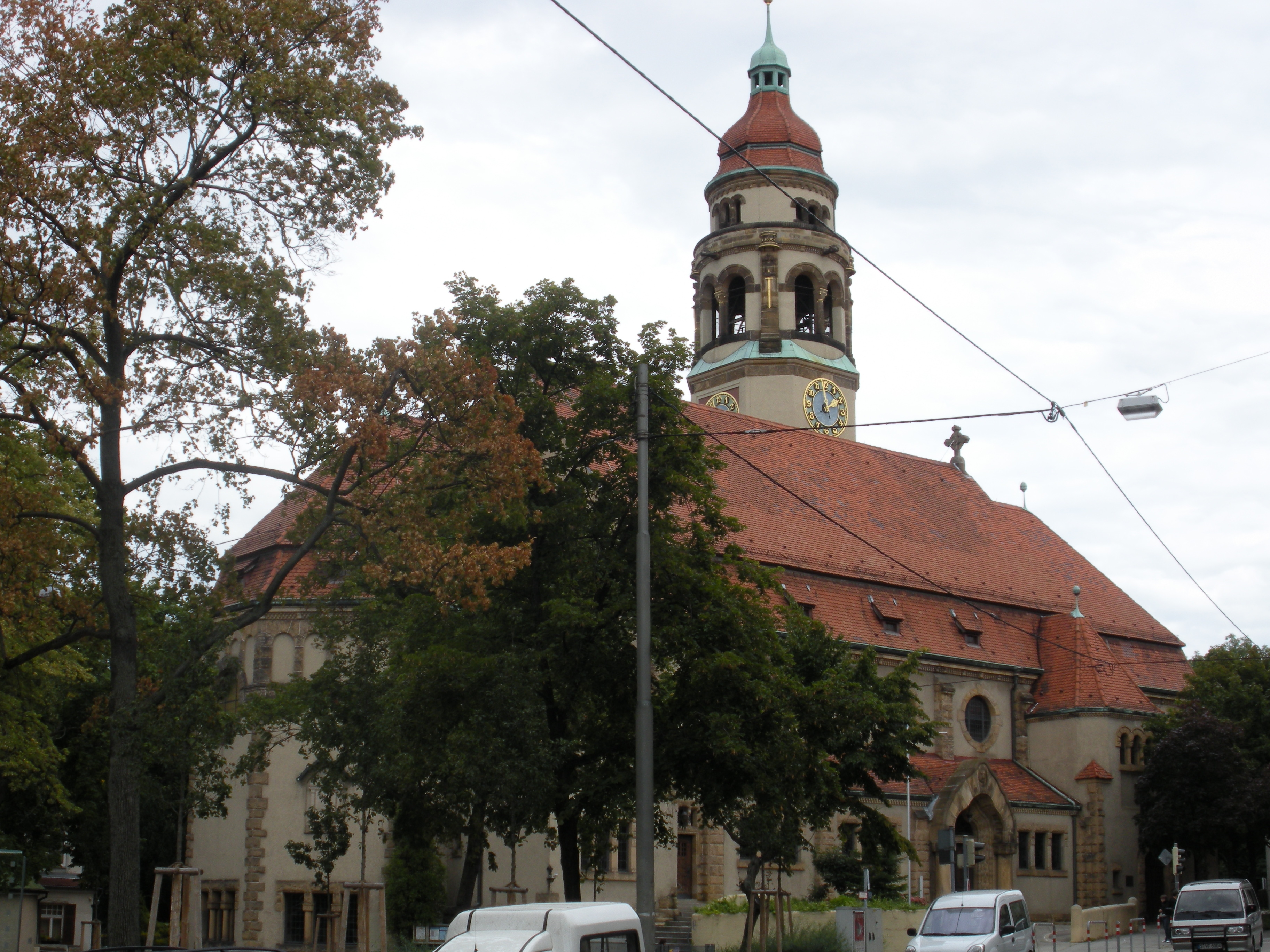 Protestant Church of Marc in Stuttgart-South